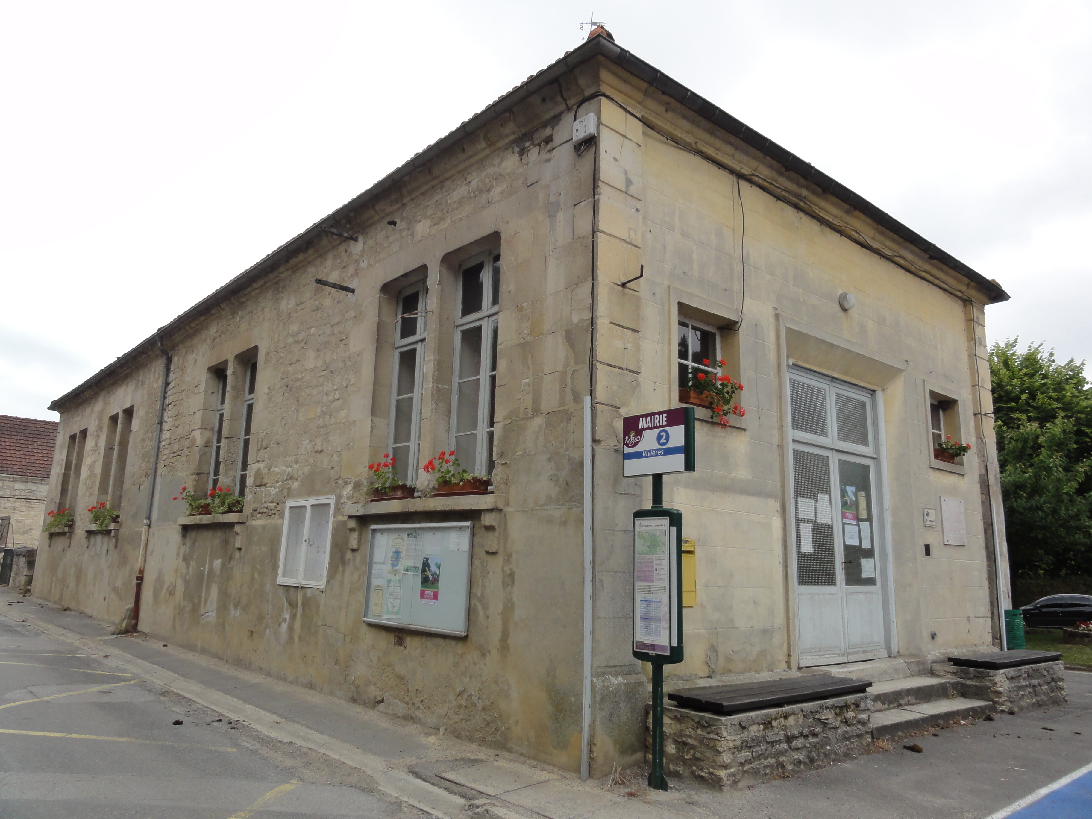 Puiseux-en-Retz (Aisne) mairie